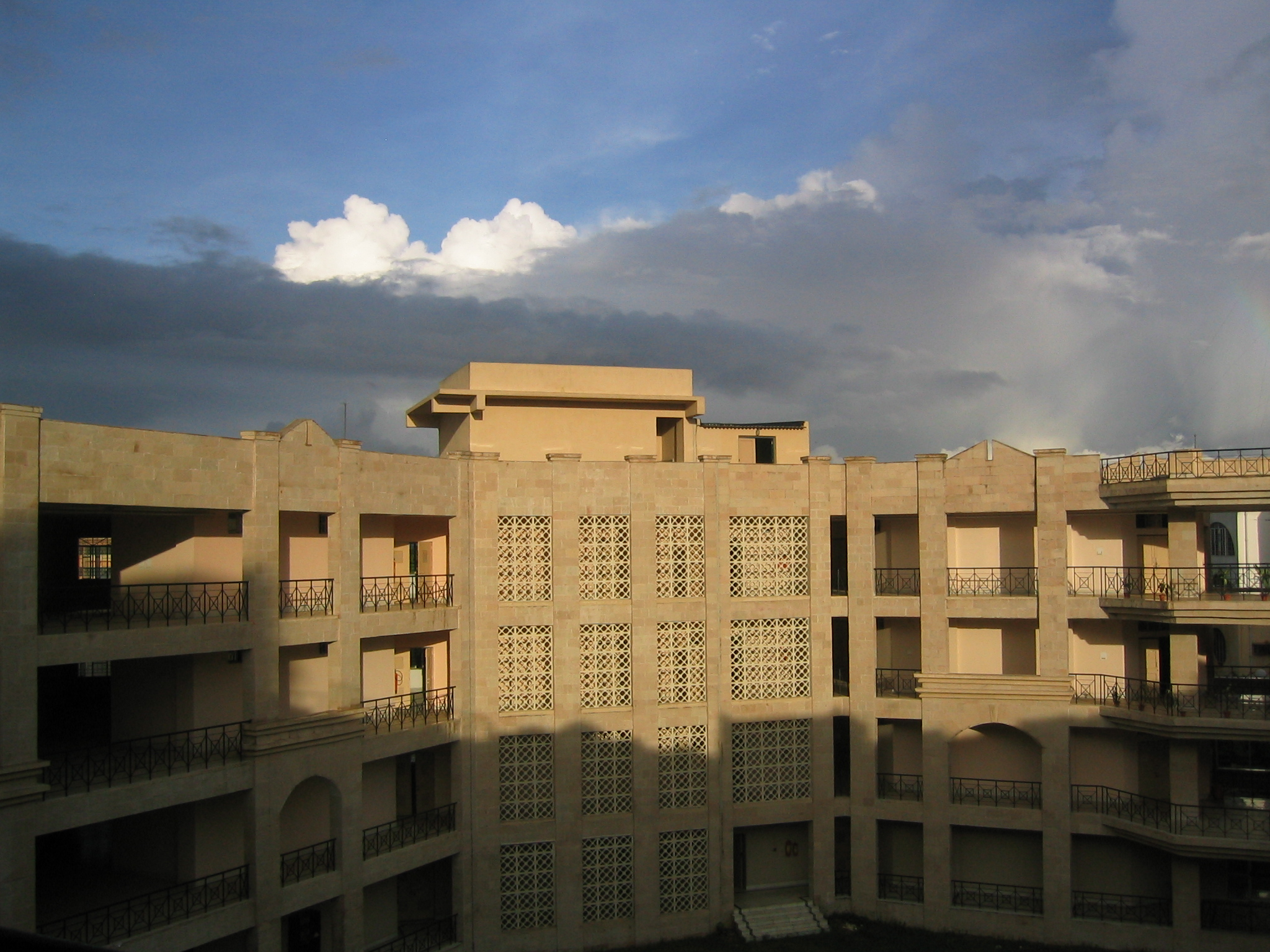 Ambedkar Bhavan academic block, West Bengal National University of Juridical Sciences (Kolkata, 2004)